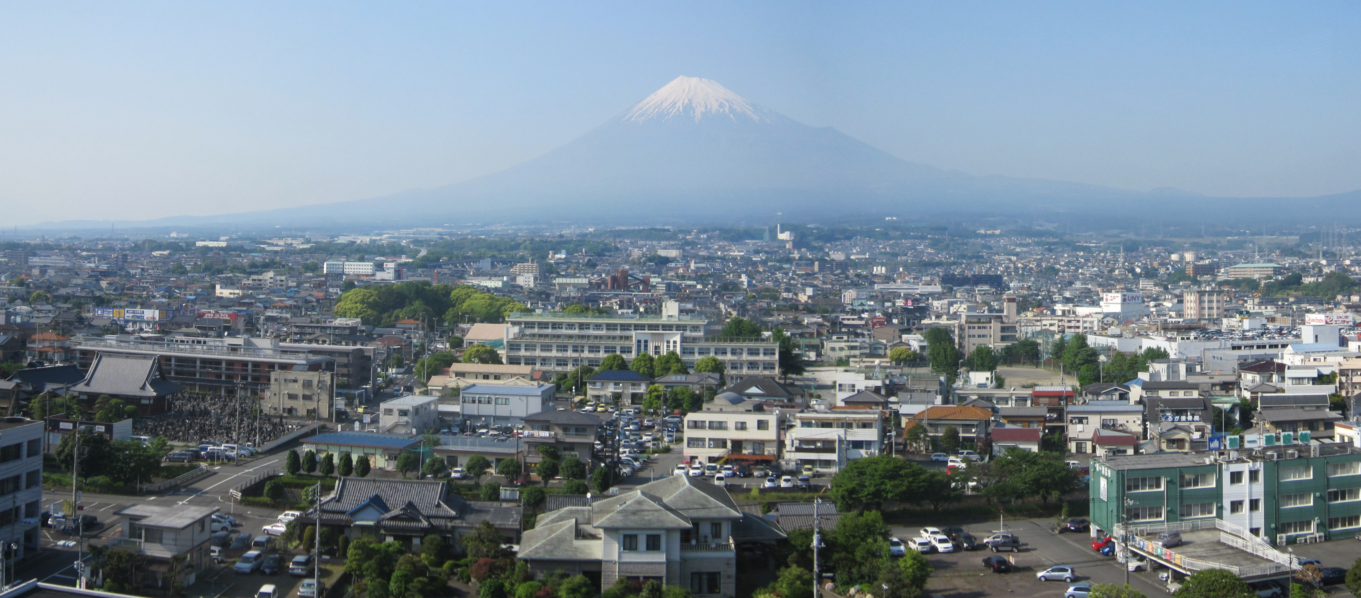 A panorama of Fuji City taken from city hall with a view of Mt. Fuji.